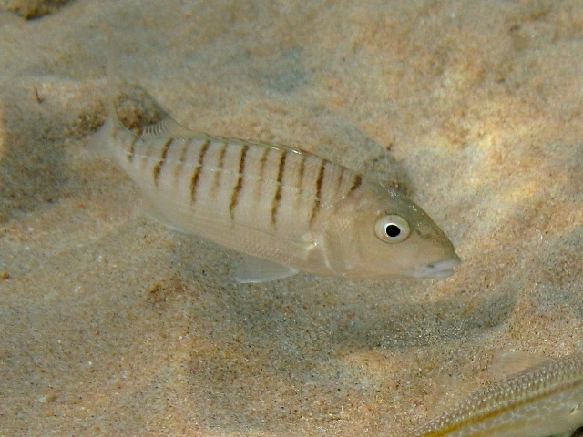 Lithognathus mormyrus photographed near Mykonos, Greece